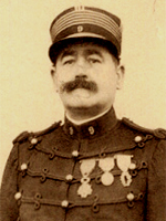 French general Pierre Ruffey, commander in chief III Army in the battle of the Frontiers, WWI, 1914.